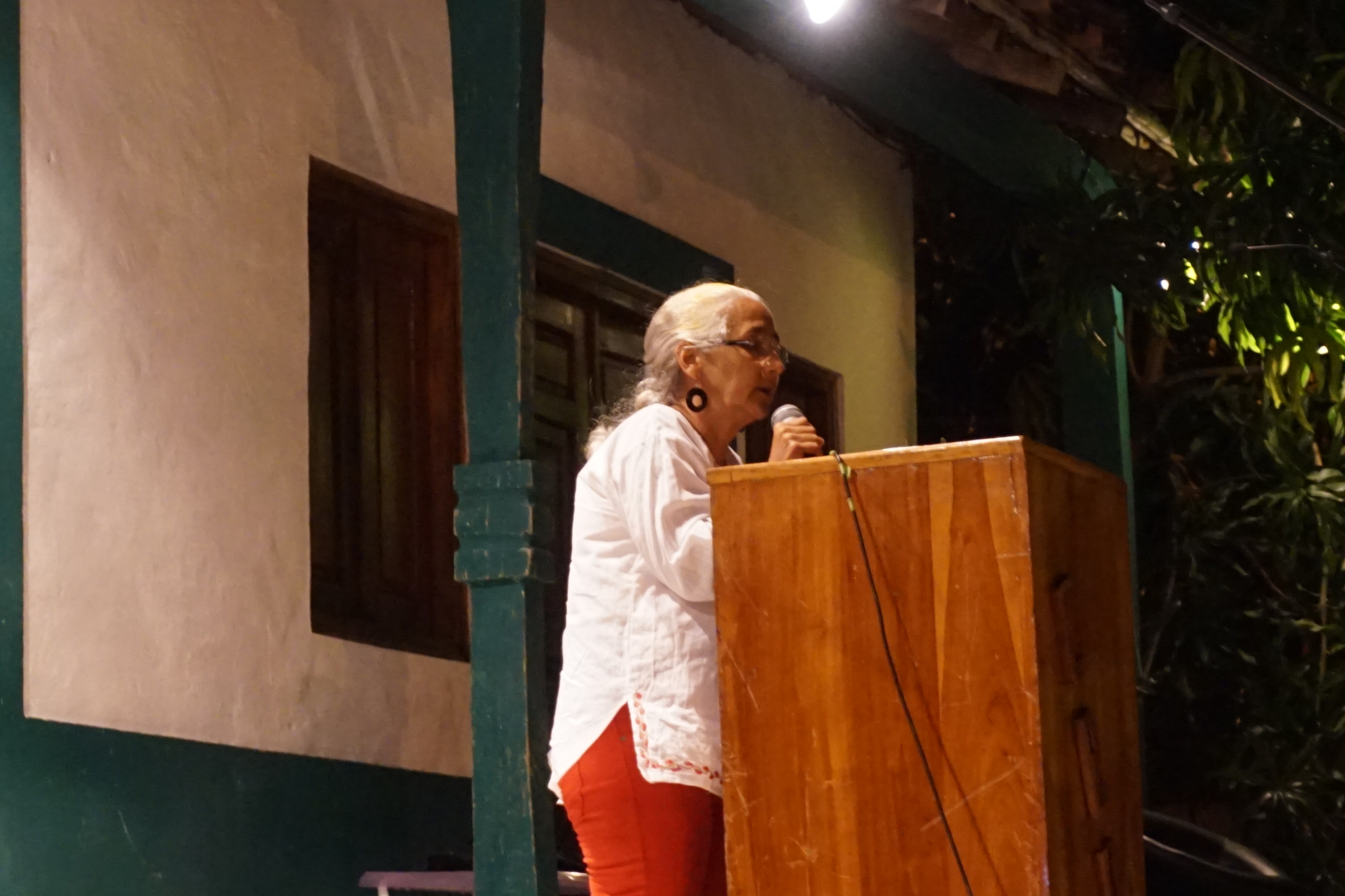 Consuelo Tomás reading poetry at The Penonomé in April Festival (April 19, 2015).